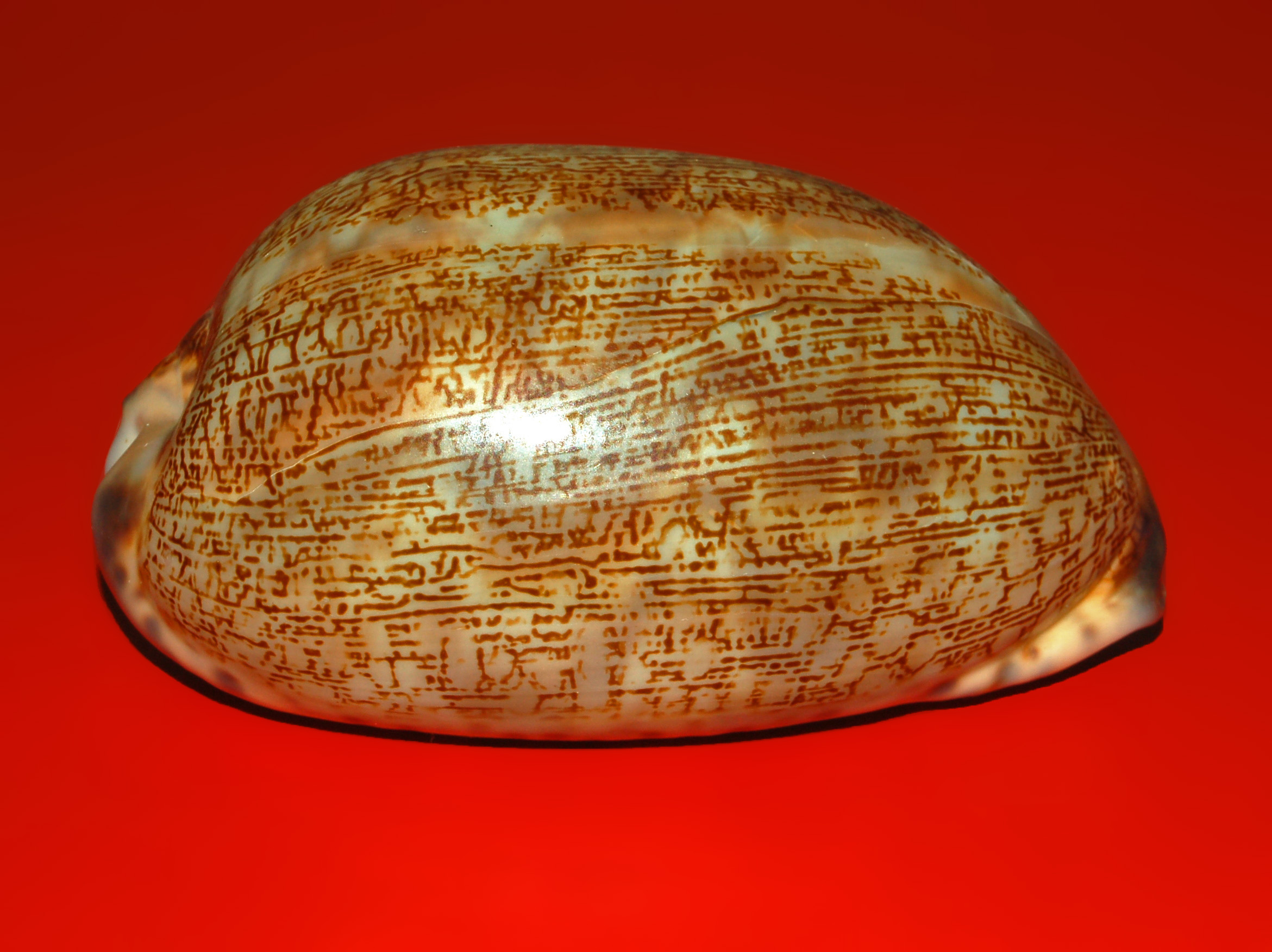 Mauritia eglantina